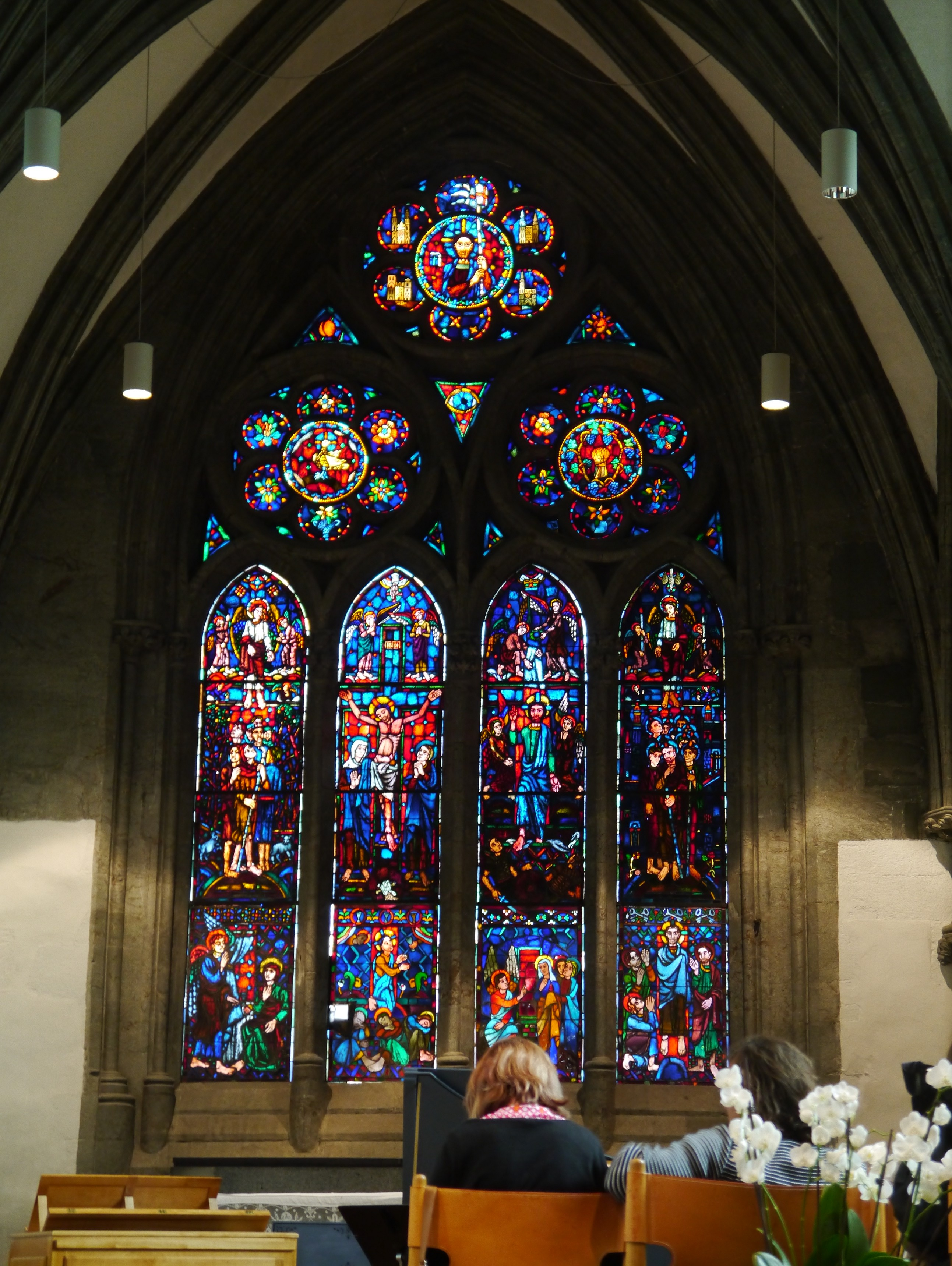 Choir window of the Cathedral St. Svithun, Stavanger, Rogaland County, Southwestern Norway